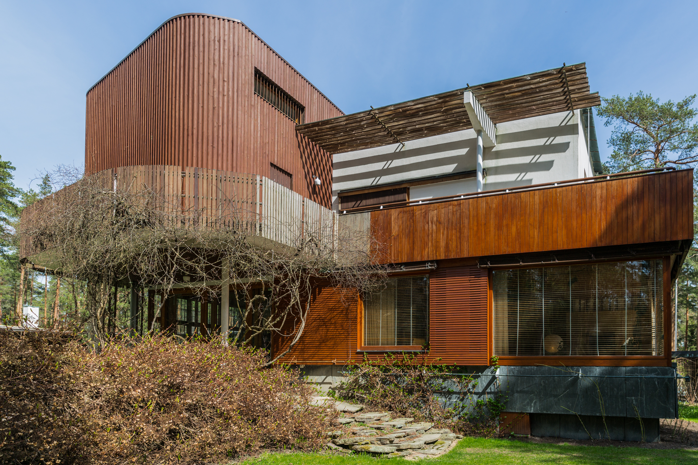 Villa Mairea, Noormarkku, Finland Wikipedia: Villa Mairea is a villa, guest-house, and rural retreat designed and built by the Finnish modernist architect Alvar Aalto for Harry and Maire Gullichsen in Noormarkku, Finland. The building was constructed in 1938–1939. The Gullichsens were a wealthy couple and members of the Ahlström family. They told Aalto that he should regard it as 'an experimental house'. Aalto seems to have treated the house as an opportunity to bring together all the themes that had been preoccupying him in his work to that point but had not been able to include them in actual buildings. Today, Villa Mairea is considered one of the most important buildings Aalto designed in his career.